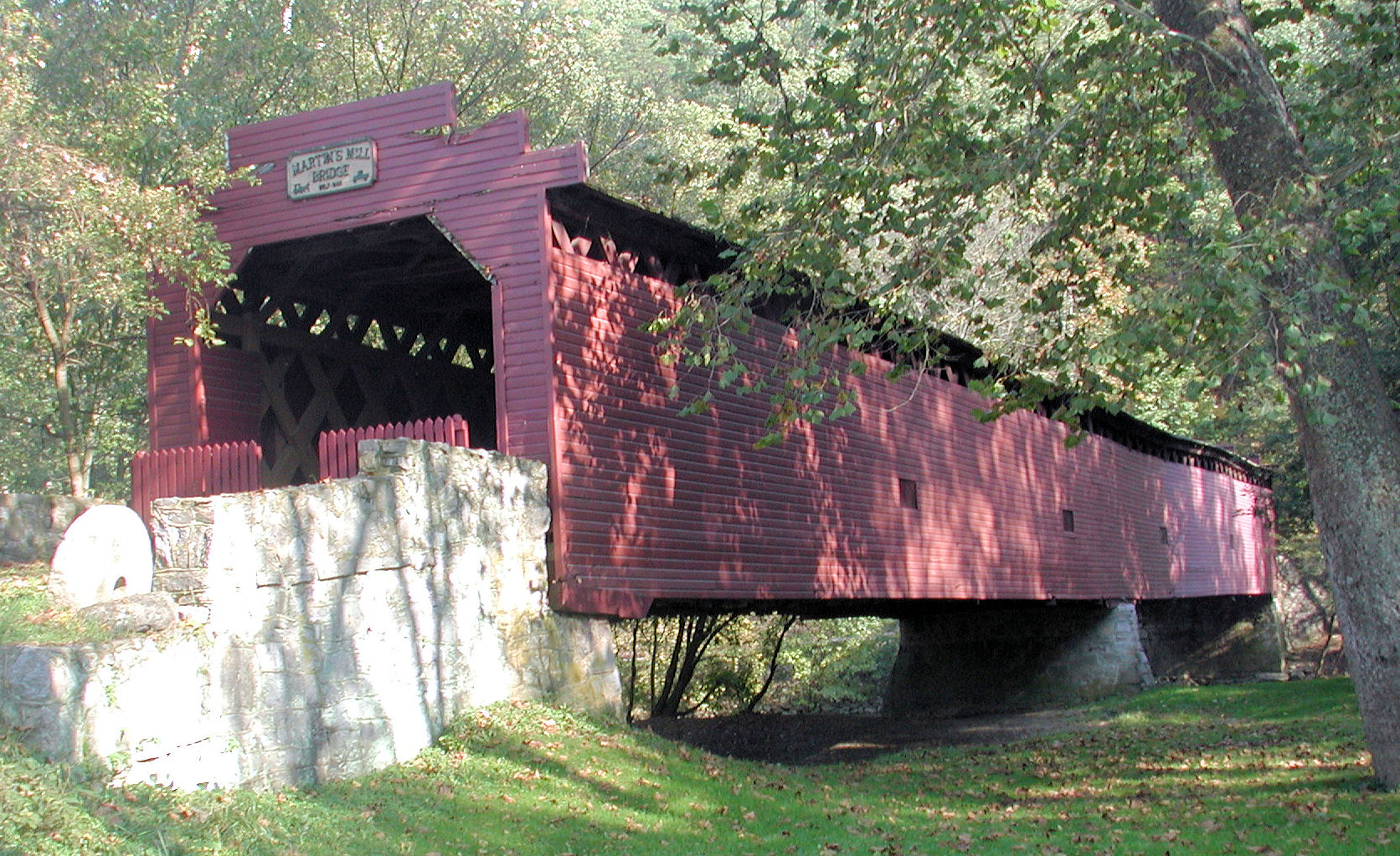 Martins Mill Bridge, Greencastle, PA - southwest corner